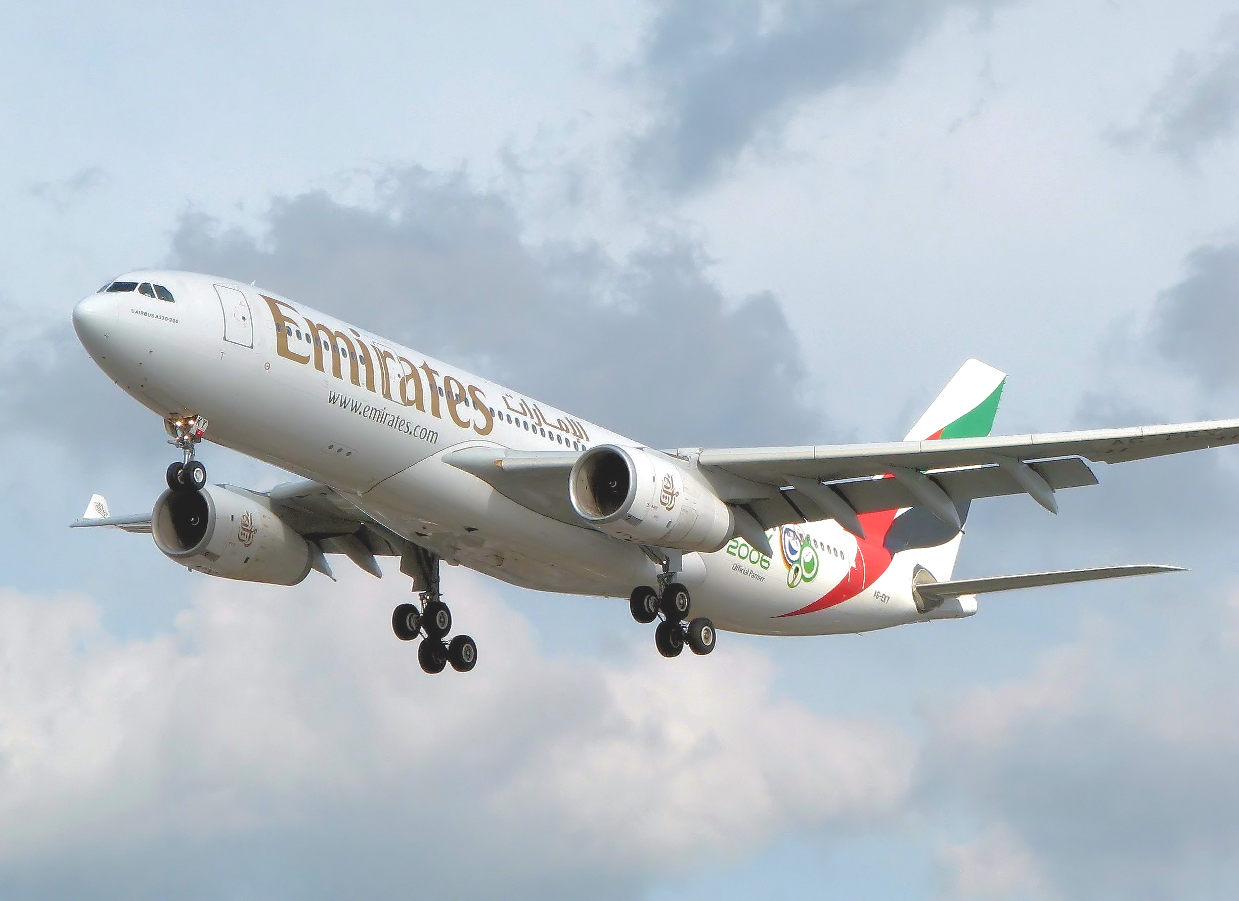 Emirates Airbus A330-200 (A6-EKY) lands at London Heathrow Airport, England.